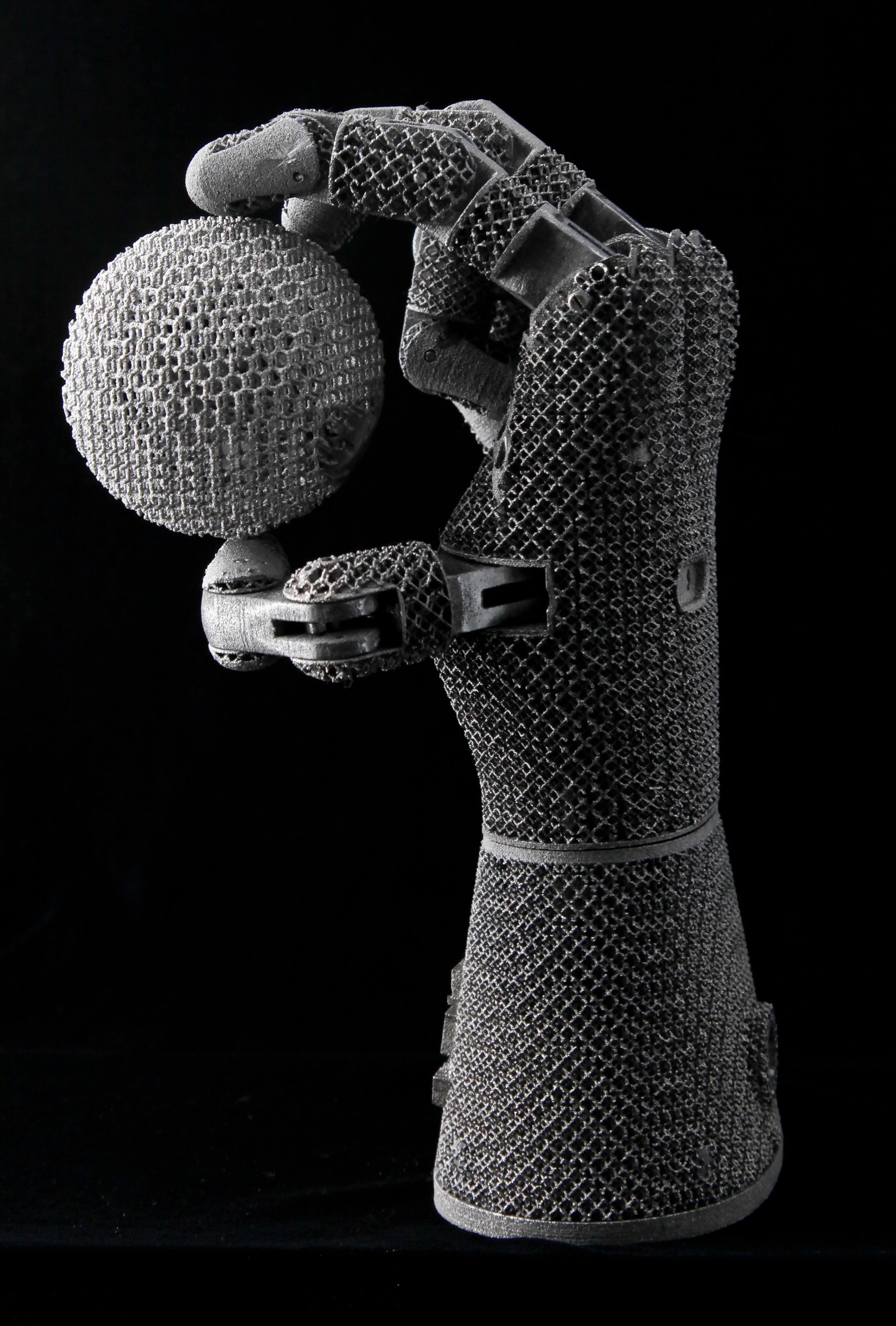 Novel, lightweight, low-cost fluid powered robotic hand fabricated at Oak Ridge National Laboratory using additive manufacturing technology selected for a 2012 R&D 100 award. Electron-beam additive manufacturing at ORNL produced this fully functional robotic hand and the mesh ball it is holding, both made from titanium powder.